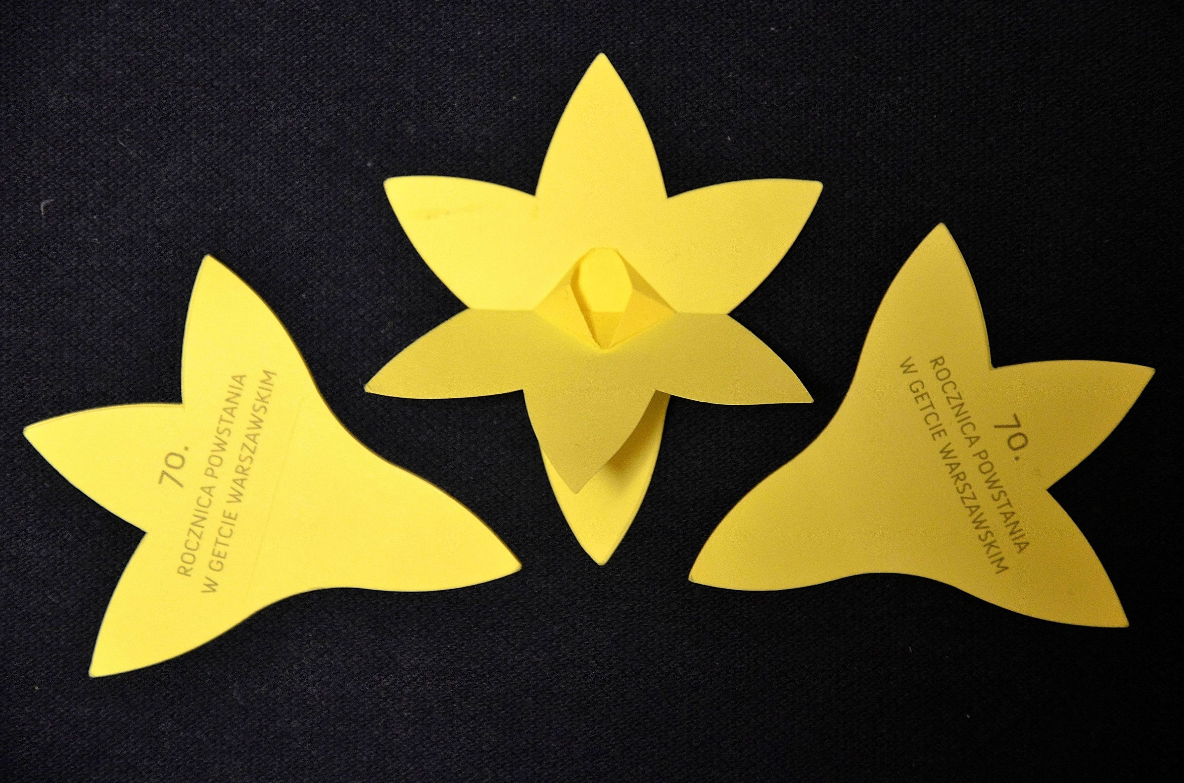 Paper daffodil – symbol of the 70th anniversary of the Warsaw Ghetto Uprising